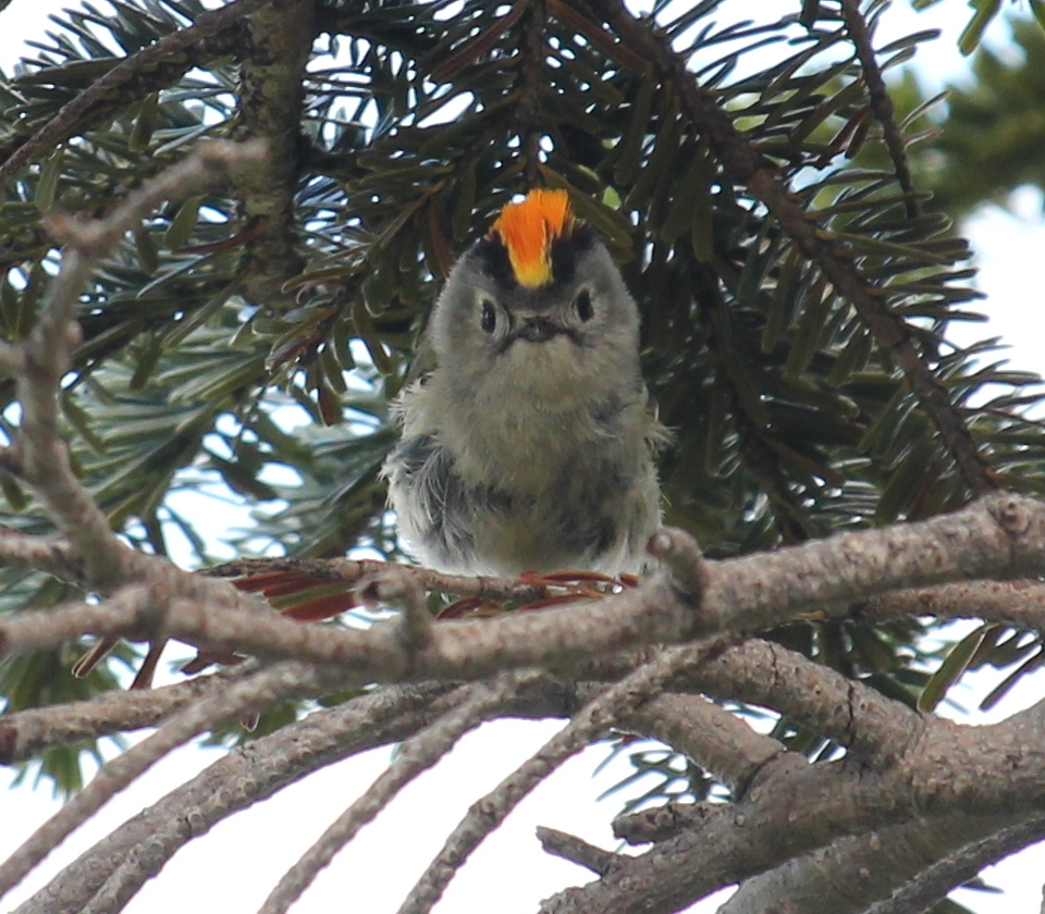 male of Regulus regulus japonensis (Goldcrest), in Mount Chō, Hida Mountains, Azumino, Nagano prefecture, Japan.